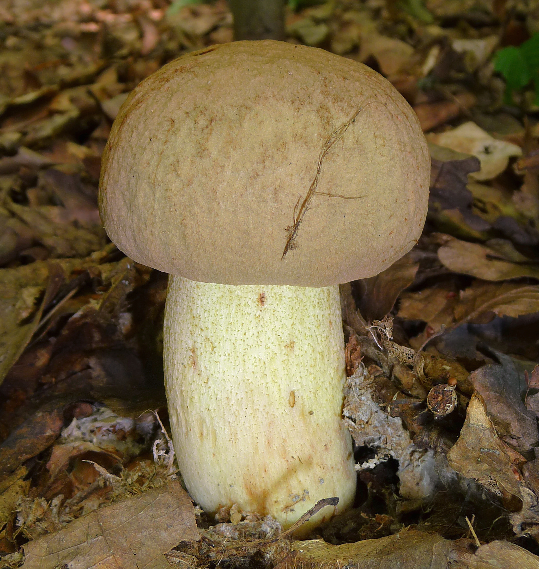 Iodine bolete